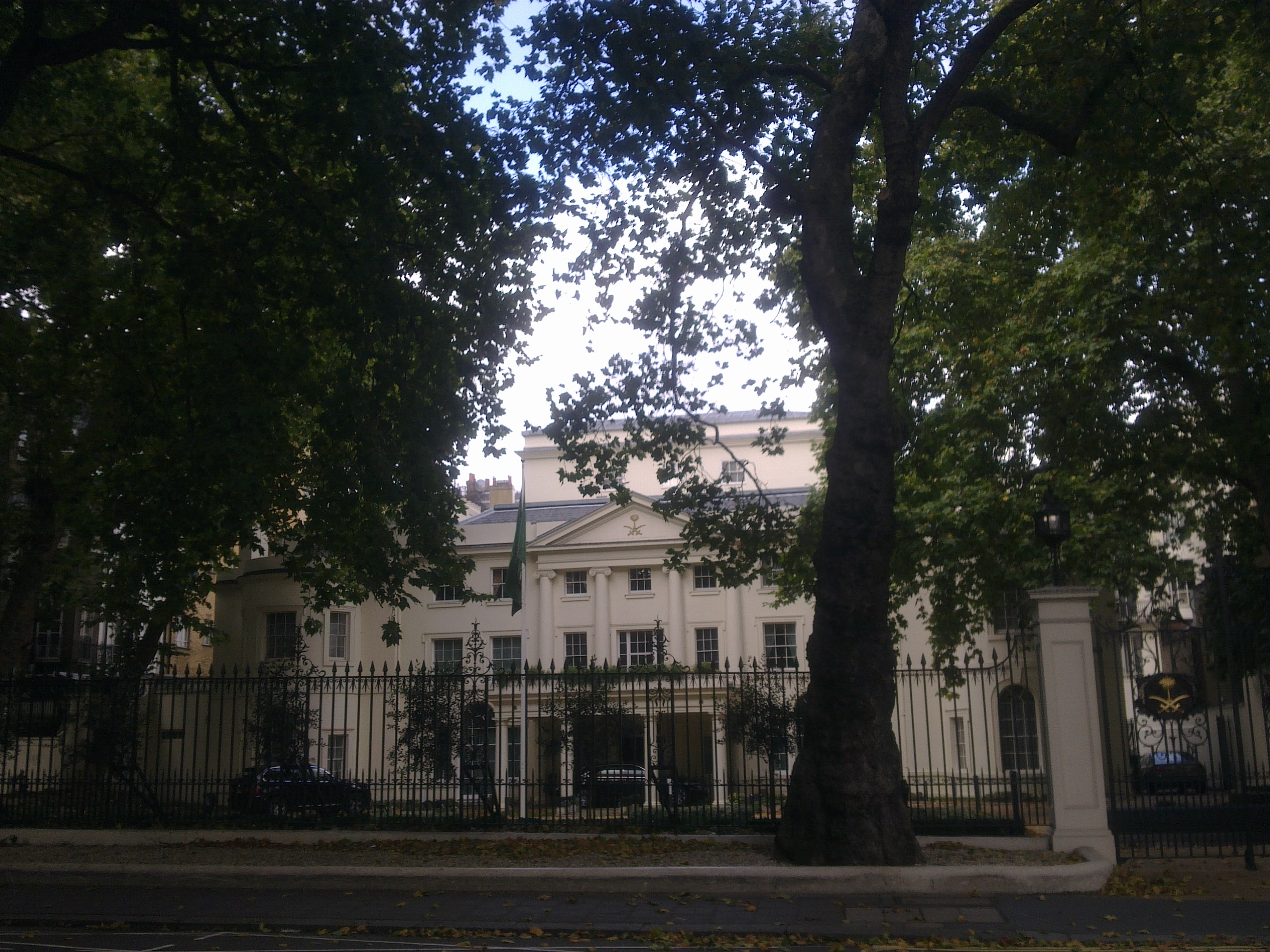 Embassy of Saudi Arabia in London 1